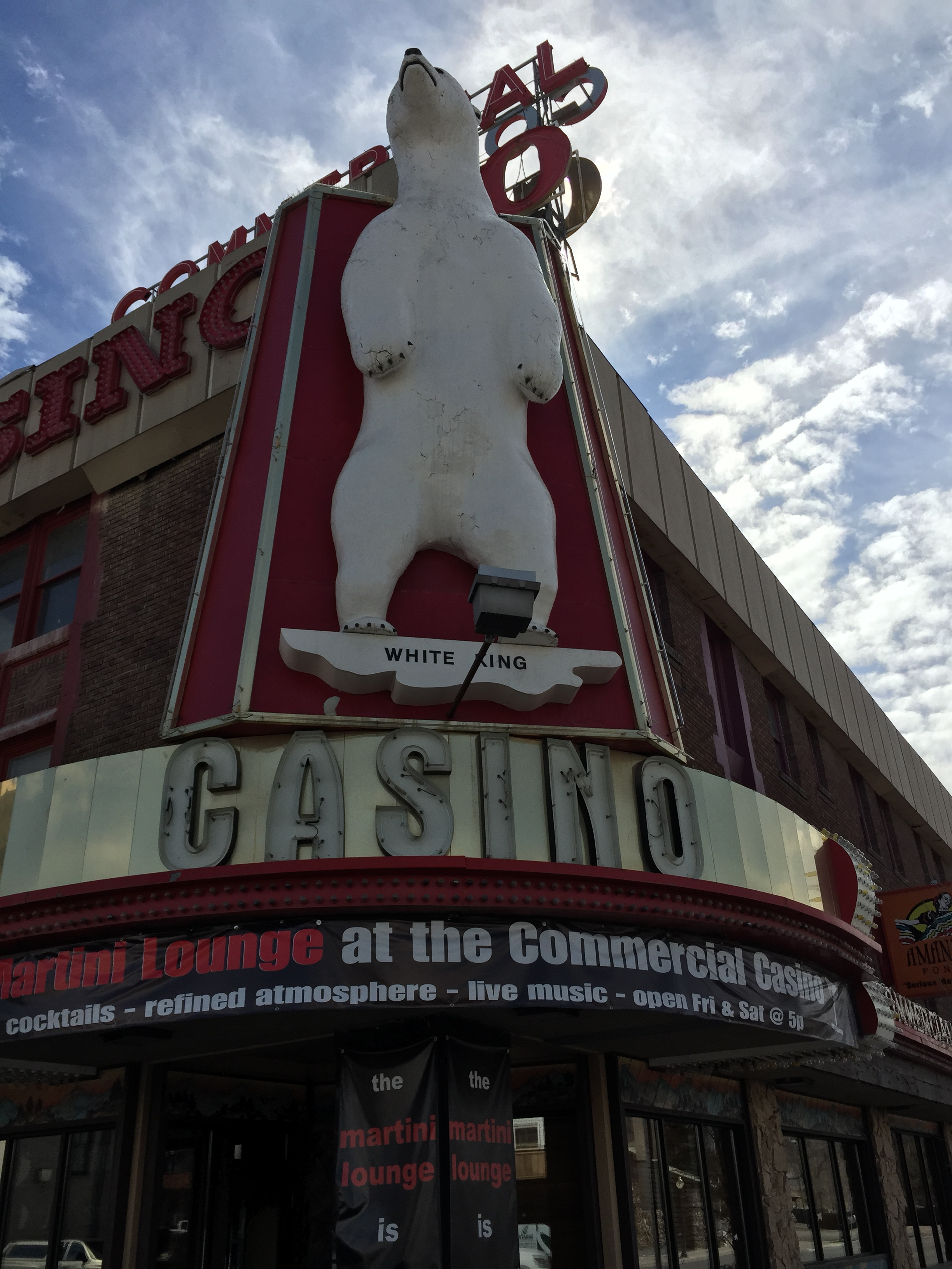 "White King" polar bear on the Commercial Casino in Elko, Nevada